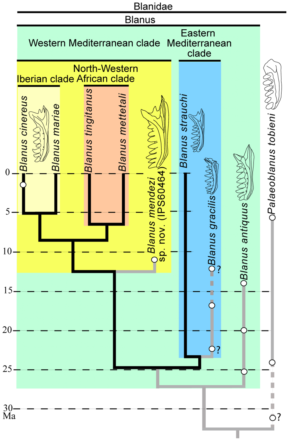 Evolutionary tree of the Blanidae based on molecular phylogeny, paleobiogeographic evidence and the paleontological data discussed in this paper. Black branches depict the phylogeny and estimated divergence times for extant taxa based on molecular data; grey branches, in turn, depict inferred stratigraphic ranges (dashed when uncertain) based on fossil finds and divergence times, as well as the hypothesized branching order for extinct species, based on morphology and biogeography